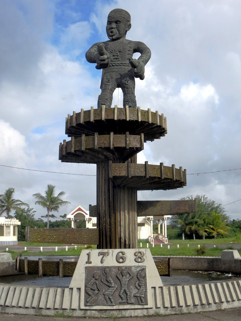 Photographers caption: "The 1763 Monument on Square of the Revolution in Georgetown, Guyana, was designed by local artist Philip Moore. It commemorates Cuffy, leader of the 1763 slave rebellion on the Bernice sugar plantation."